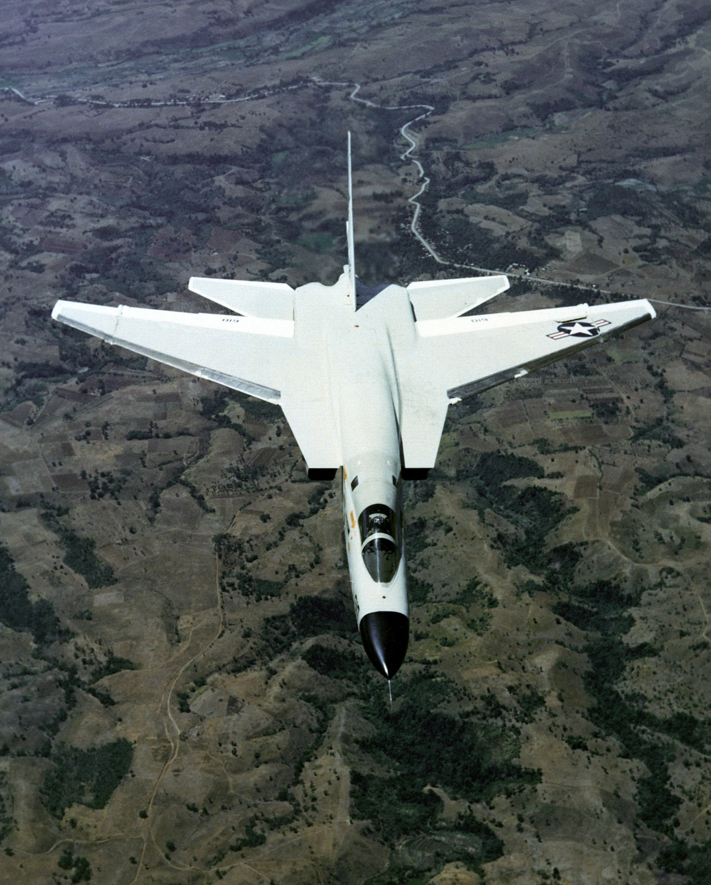 An overhead aerial view of an RA-5C Vigilante aircraft, Reconnaissance Attack Squadron 7 (RVAH-7) known as the "Peacemakers of the Fleet" and was assigned to the USS RANGER (CV 61) from February 21 to September 22, 1979. This photograph may show the Vigilante's last flight, since all Vigilante aircraft were officially retired in September 1979 and the RVAH-7 was officially decommissioned in October 1979. The exact date photo taken is unknown.